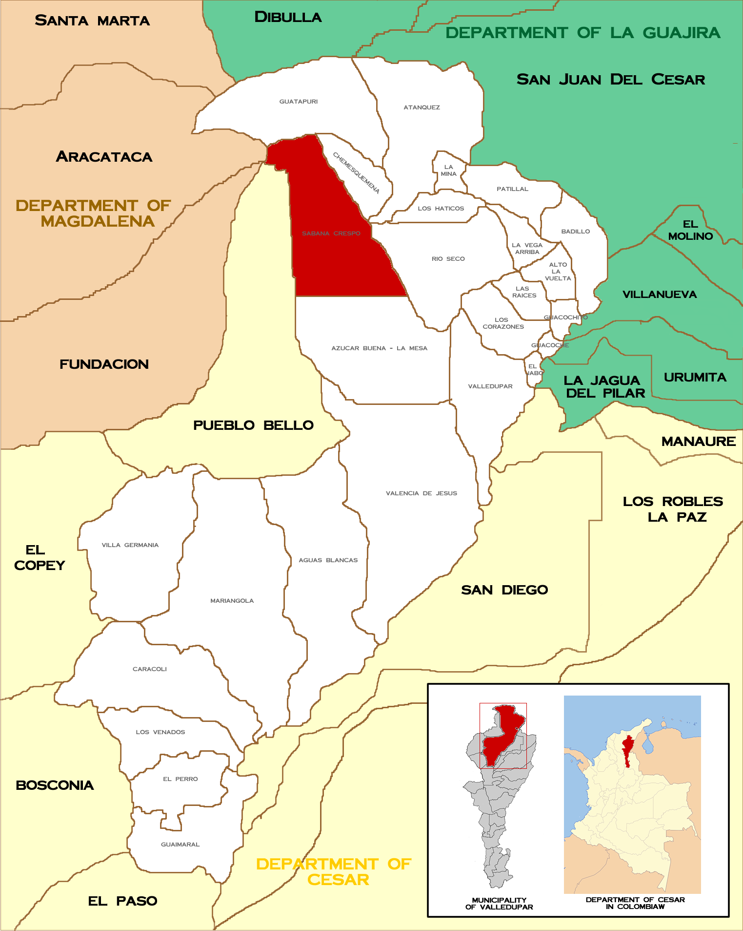 Map of Corregimientos of Valledupar, Sabana Crespo